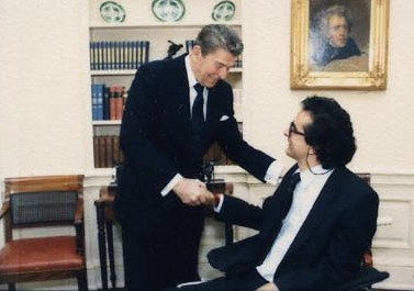 Columnist Charles Krauthammer meeting President Ronald Reagan at the White House